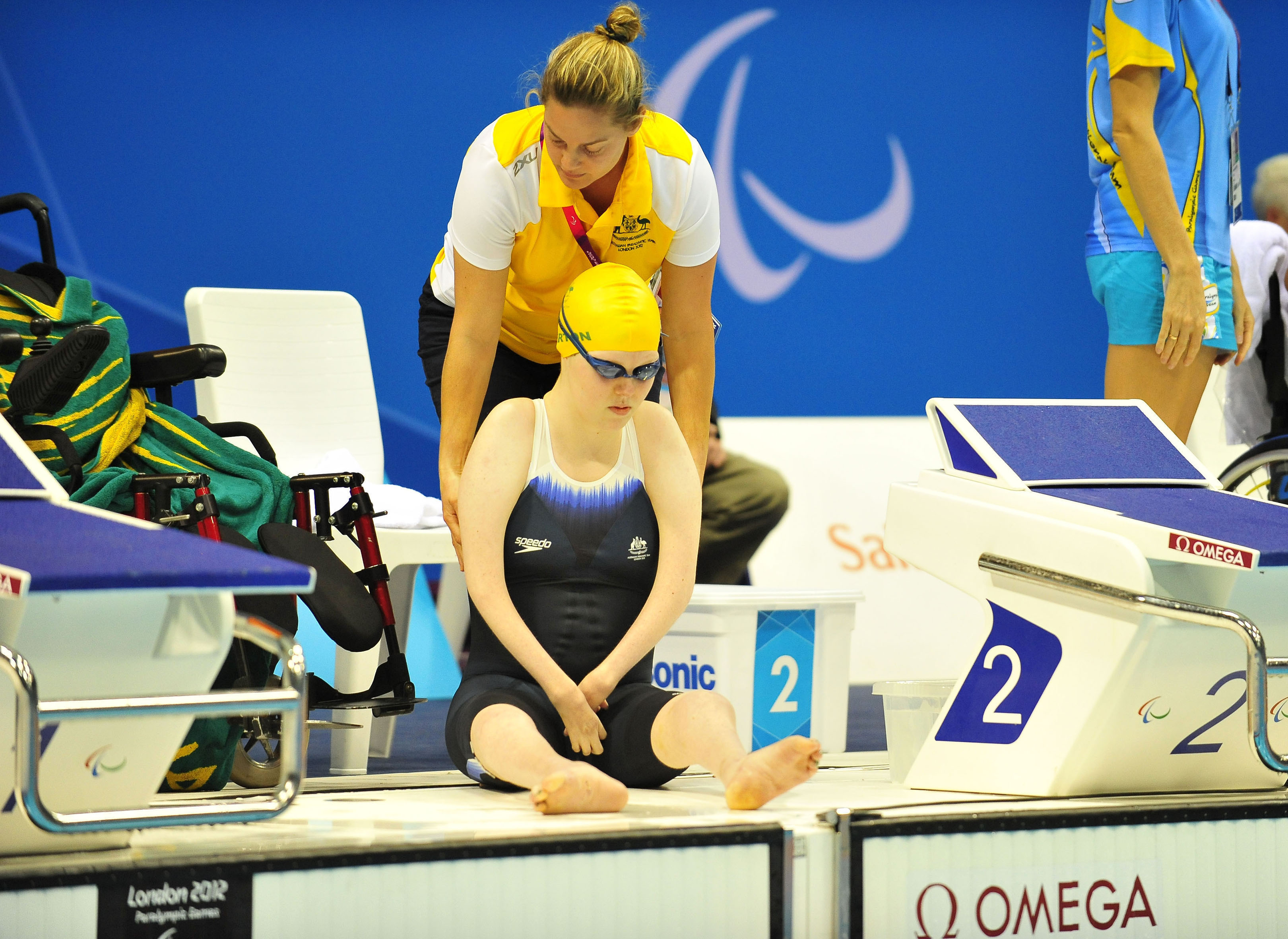 Photograph of Australian Paralympic team member Esther Overton at the 2012 Summer Paralympic Games in London